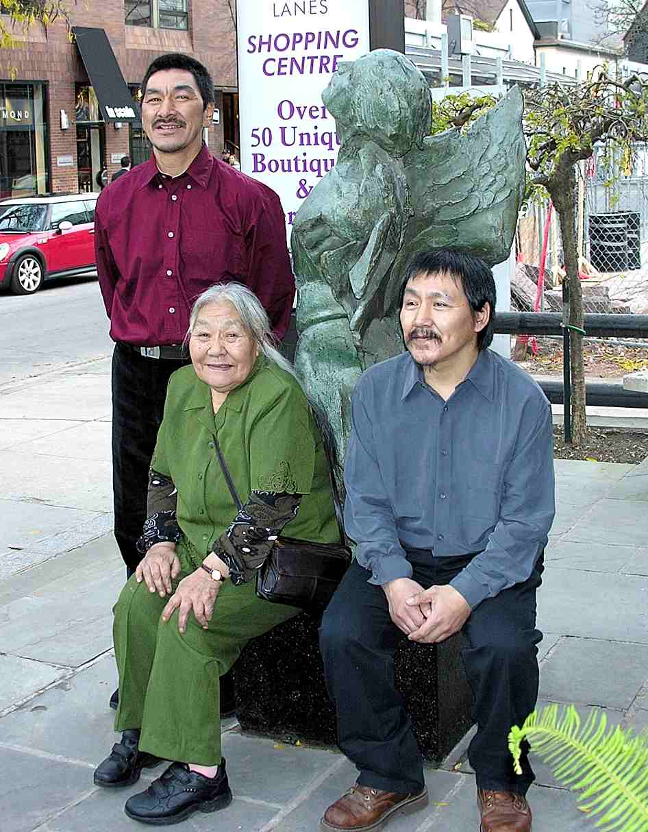 Kenojuak Ashevak and her sons Adamie (left) and Arnaguq (right) in front of Feheley Fine Arts Gallery, Toronto (Canada)